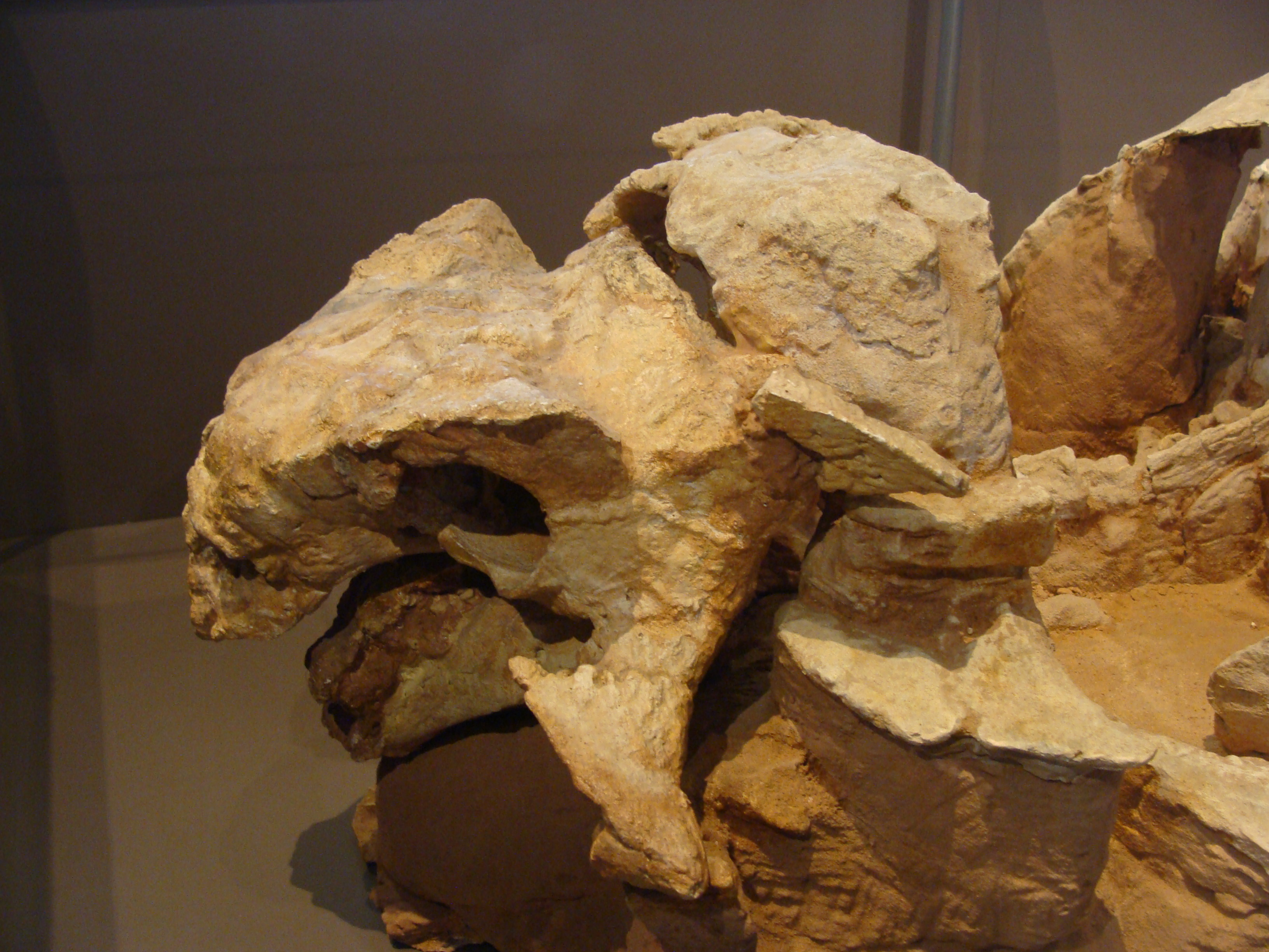 Pinacosaurus mephistocephalus in the Royal Belgian Institute of Natural Sciences.